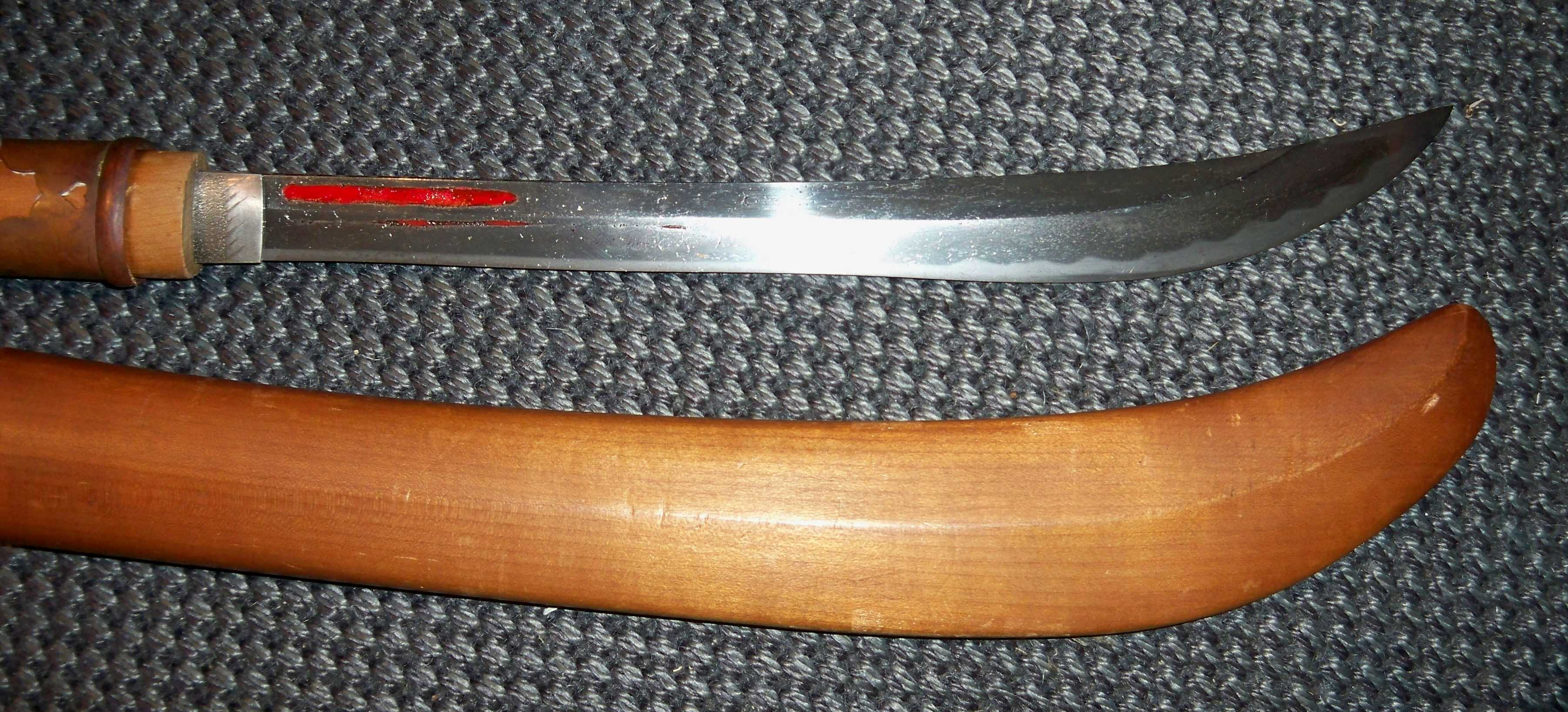 Antique Japanese naginata blade and saya.